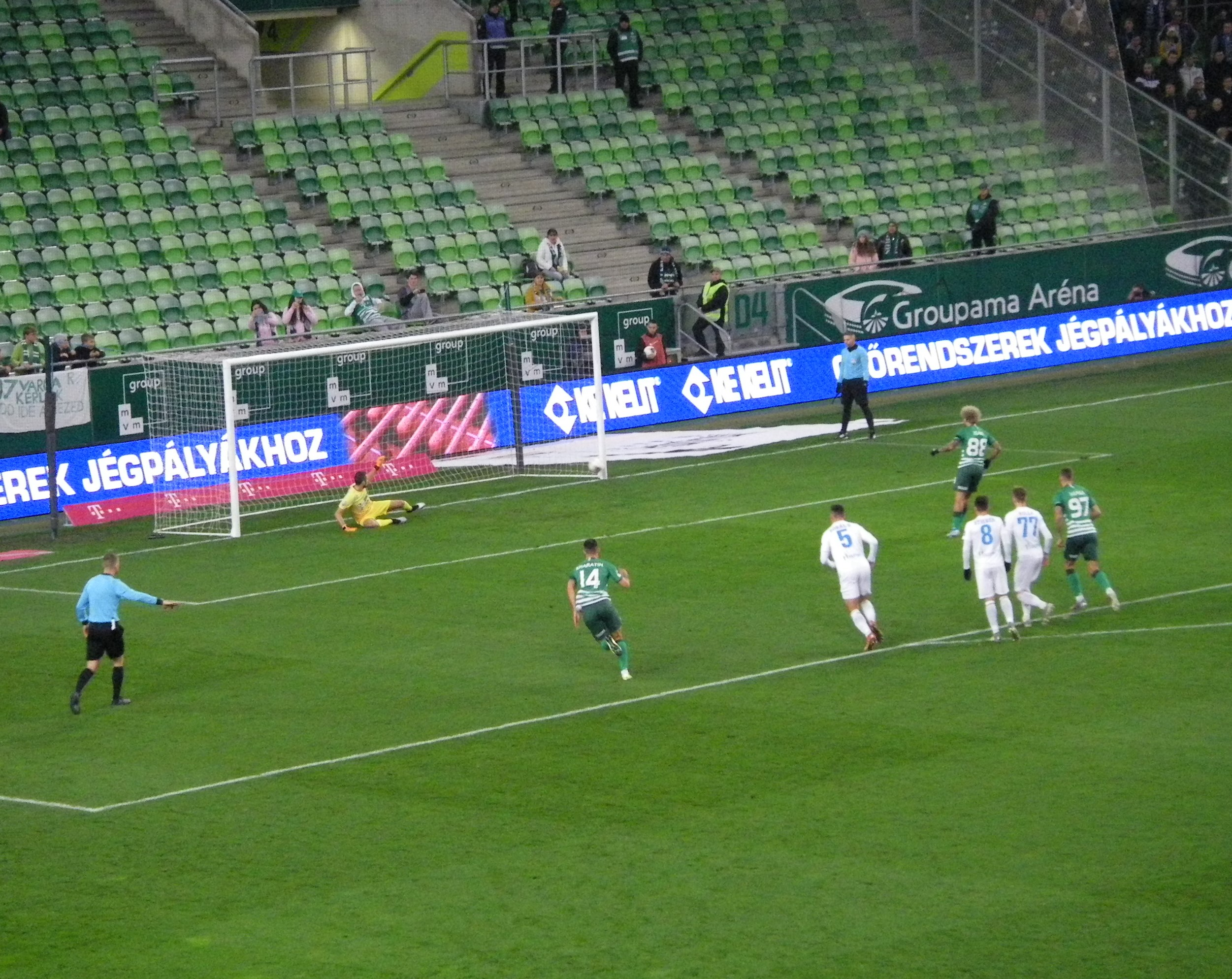 Isael da Silva Barbosa hits a penalty to the post but Fradi (Ferencváros) won nevertheless with 3:2 against Zalaegerszegi TE on November 24, 2019.